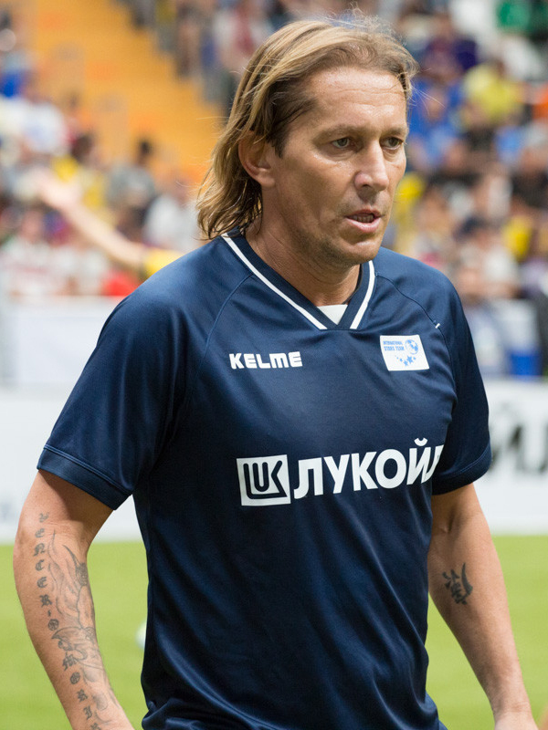 Spanish former footballer Míchel Salgado on 12 July 2018, during the Legends SuperCup in Moscow.